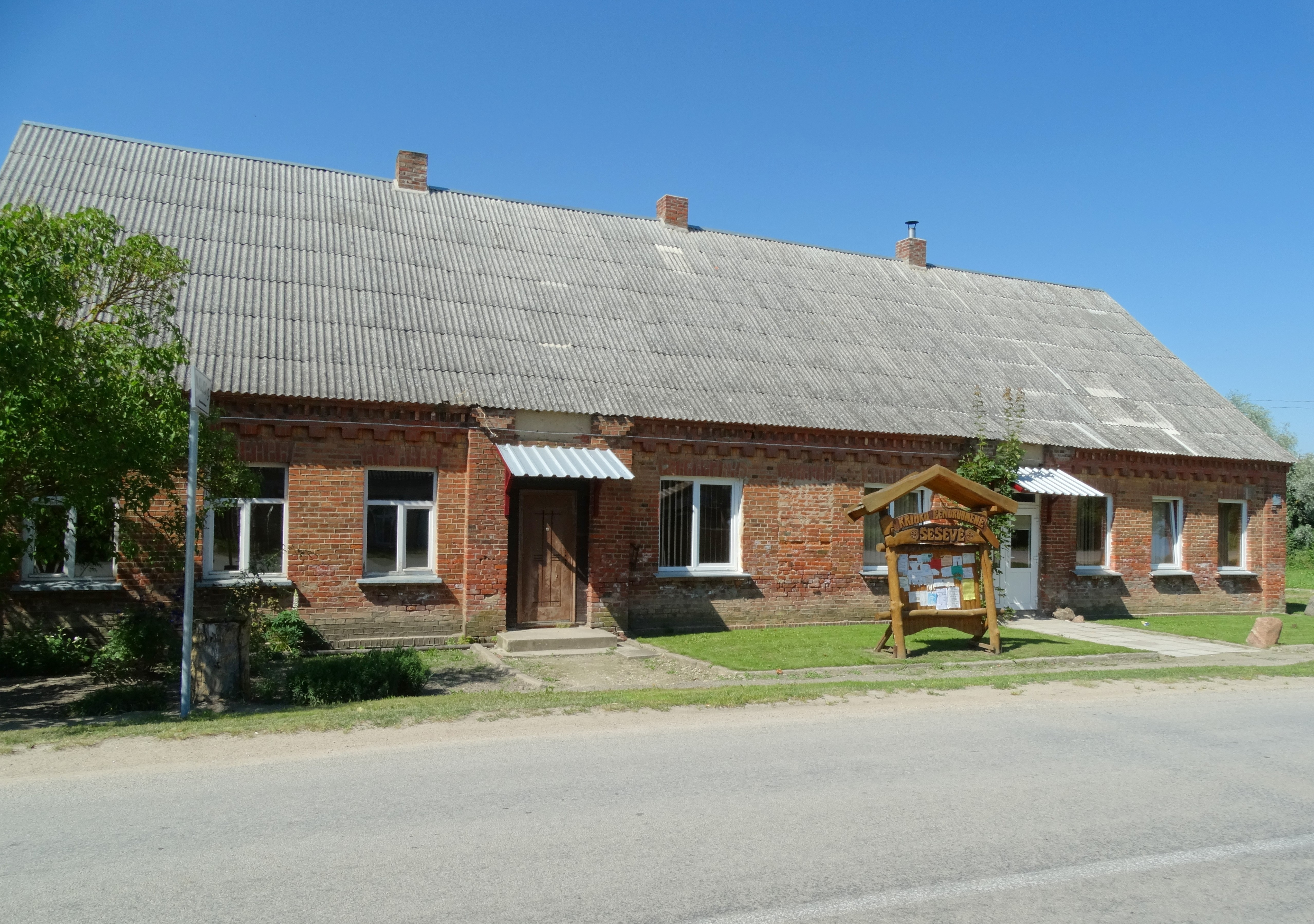 Community house, Kriukai, Joniškis District, Lithuania